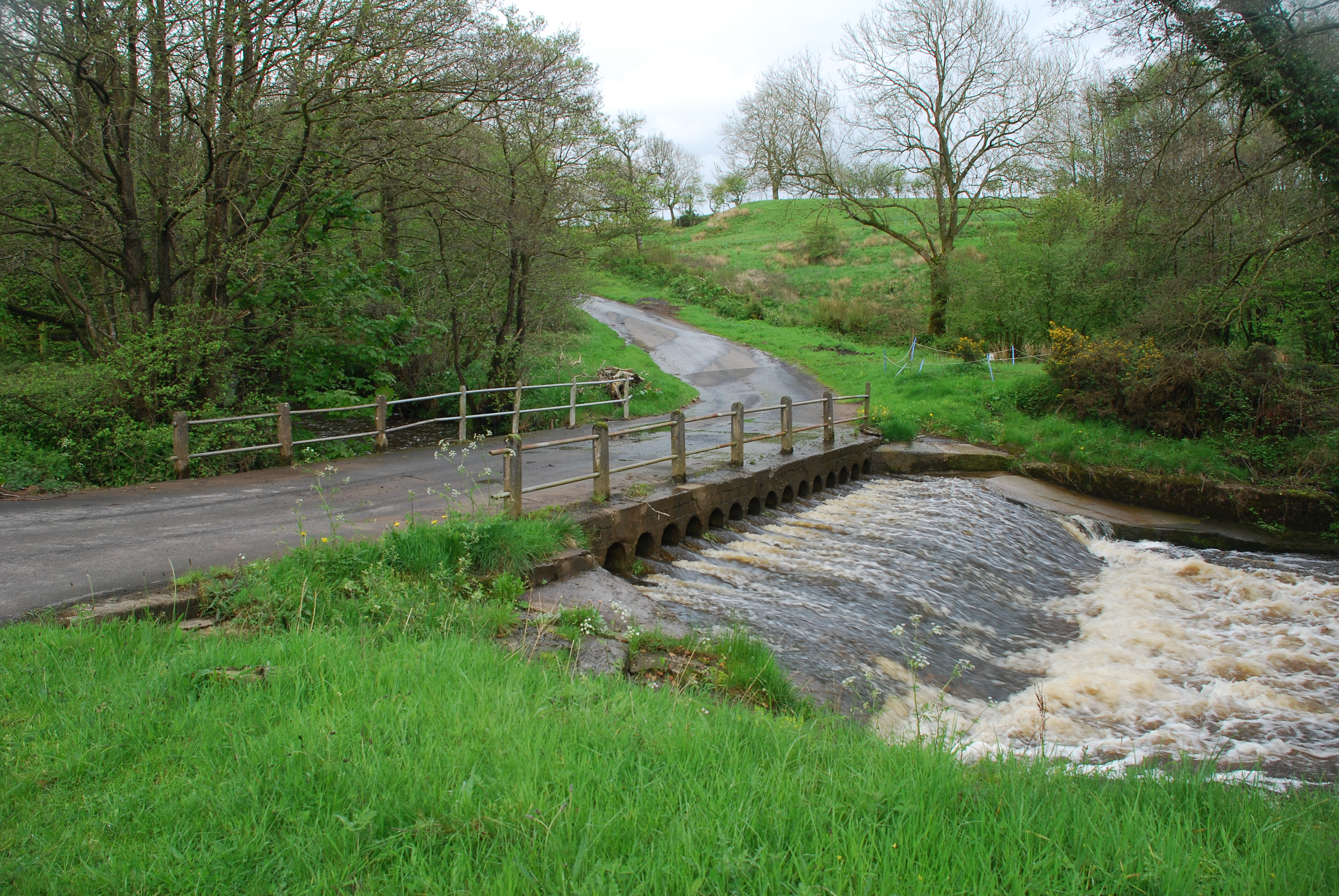 Ford at Solmain